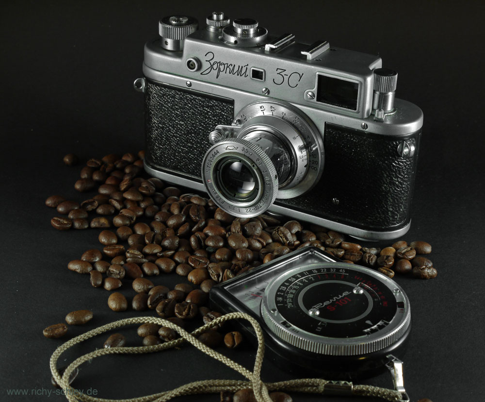 Zorki 3C taken with Lumix GF1